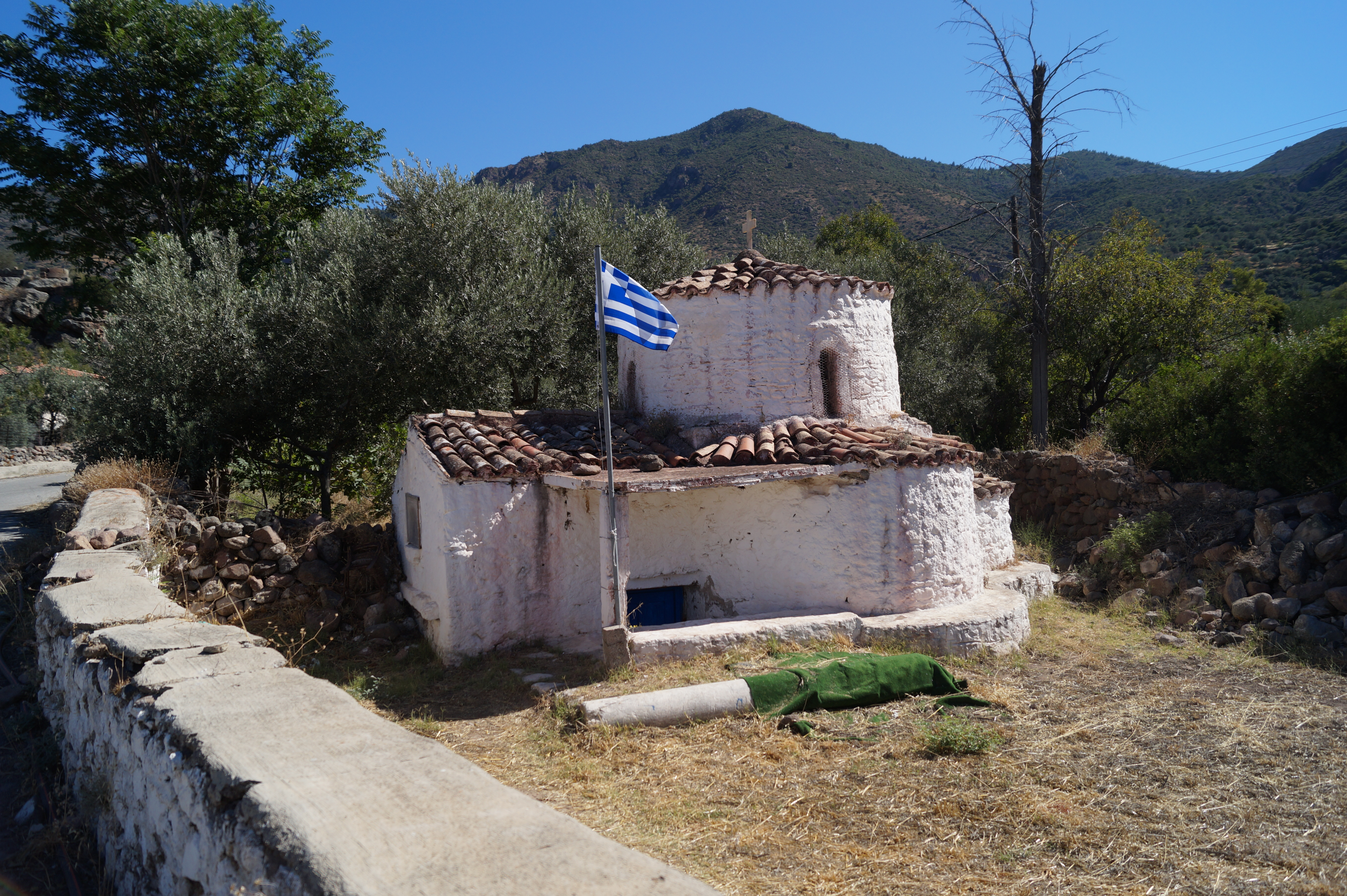 Acropolis Palaiokastro, Methana, Greece: Byzantine Church of Agios Nikolaos (11th century) to the south of the acropolis.